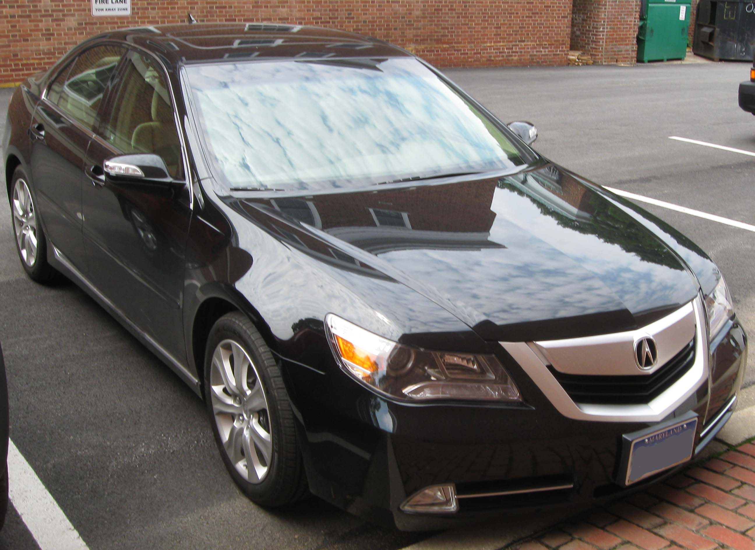 2009-2010 Acura RL photographed in College Park, Maryland, USA.